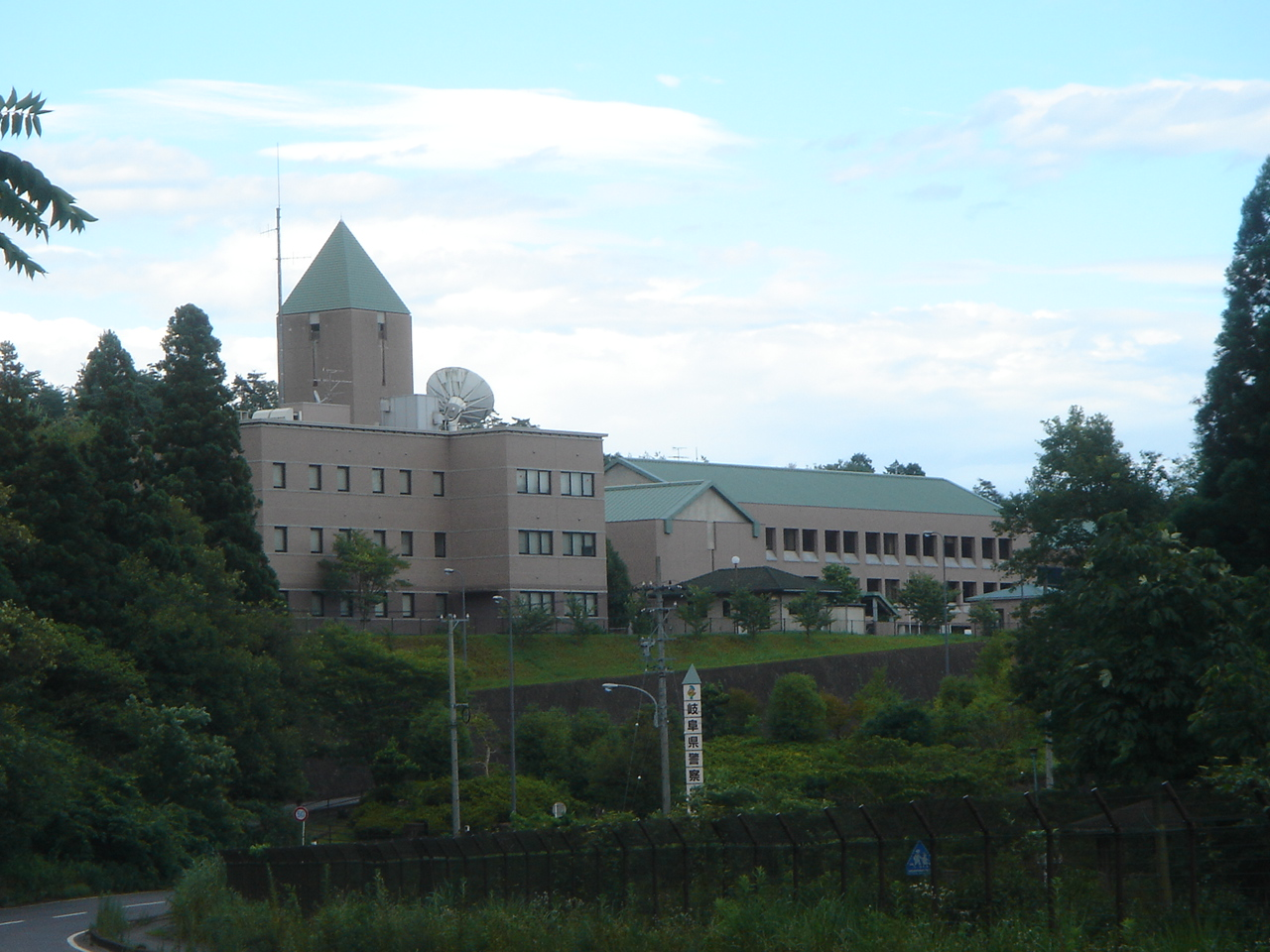 Gifu Prefectural Police School(岐阜県警察学校),Seki,Gifu,Japan(岐阜県関市)で撮影。